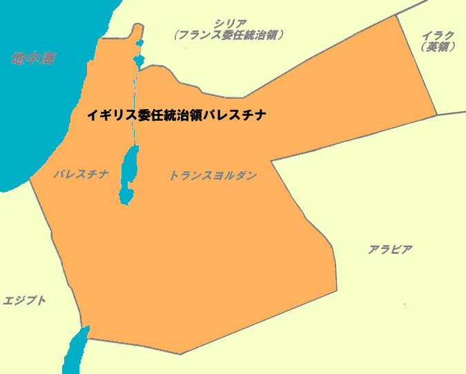 British Mandate of Palestine with legend in Japanese, 1920s